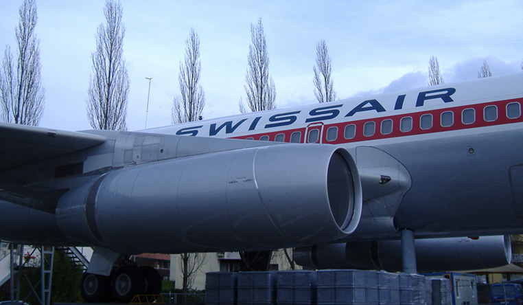 General Electric CJ-805-23 mounted to Swissair Convair 990